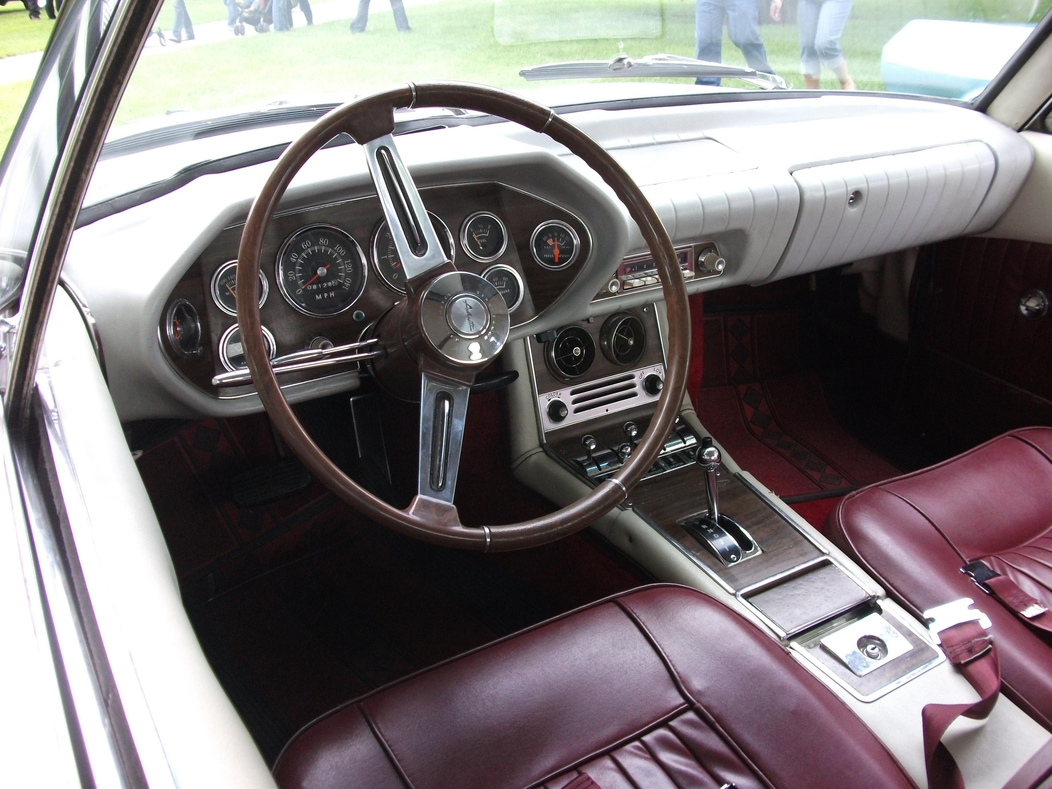 Dashboard Lovely 1964 Studebaker Avanti - these early ones are much nicer than the later fiberglass ones.